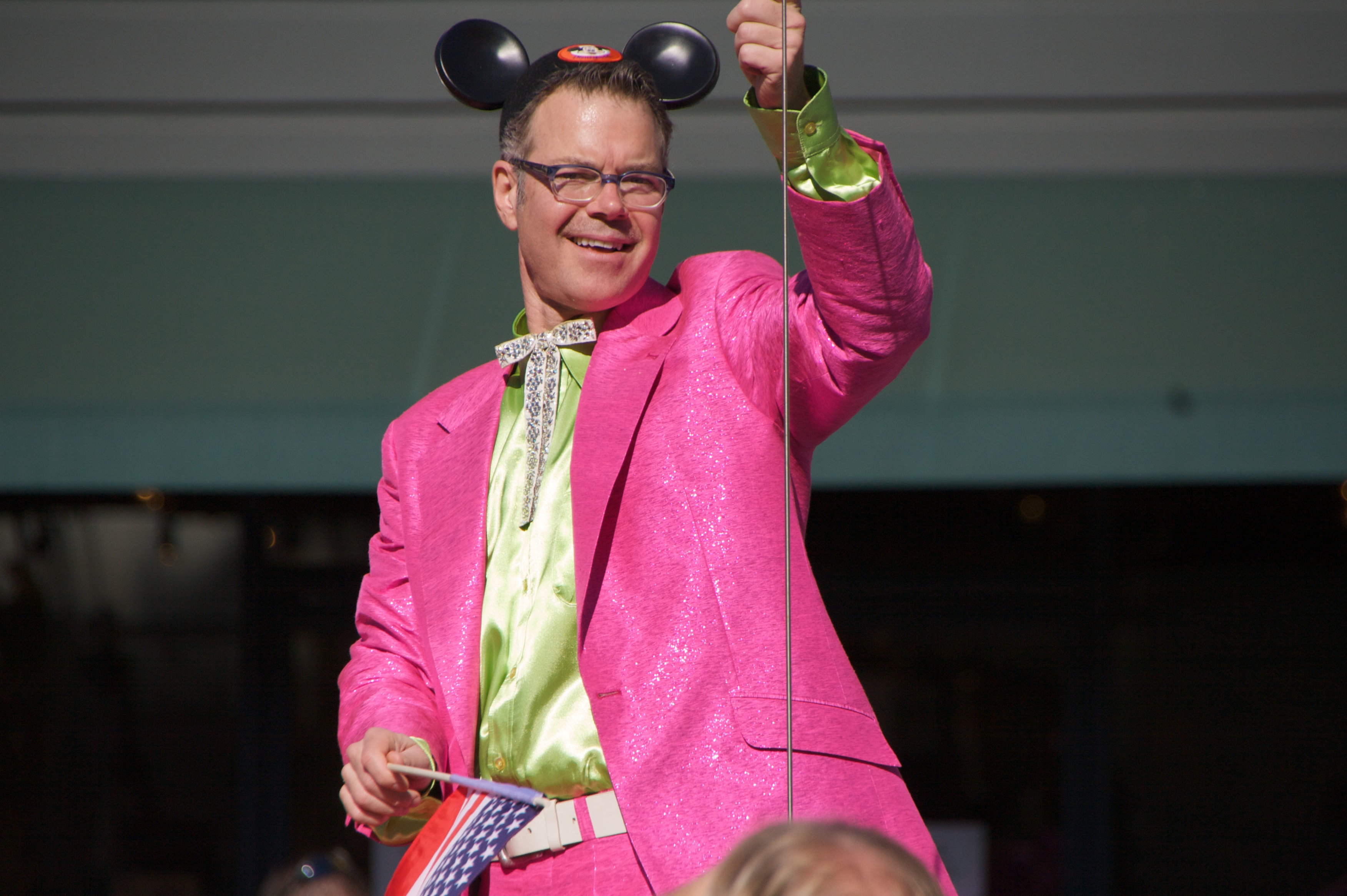 This years Grand Marshall was Charles Phoenix.